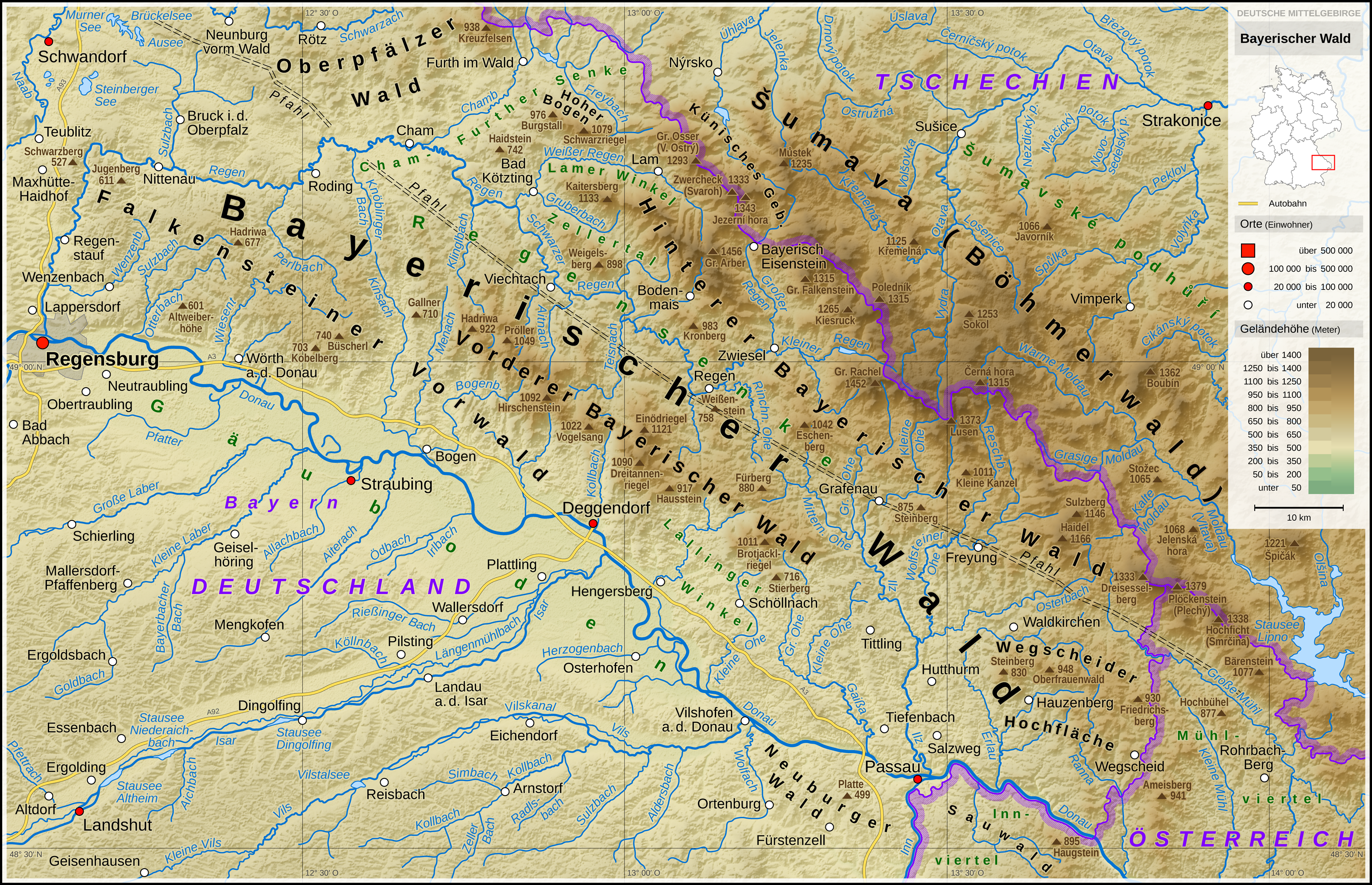 Topographic map of the Bavarian Forest